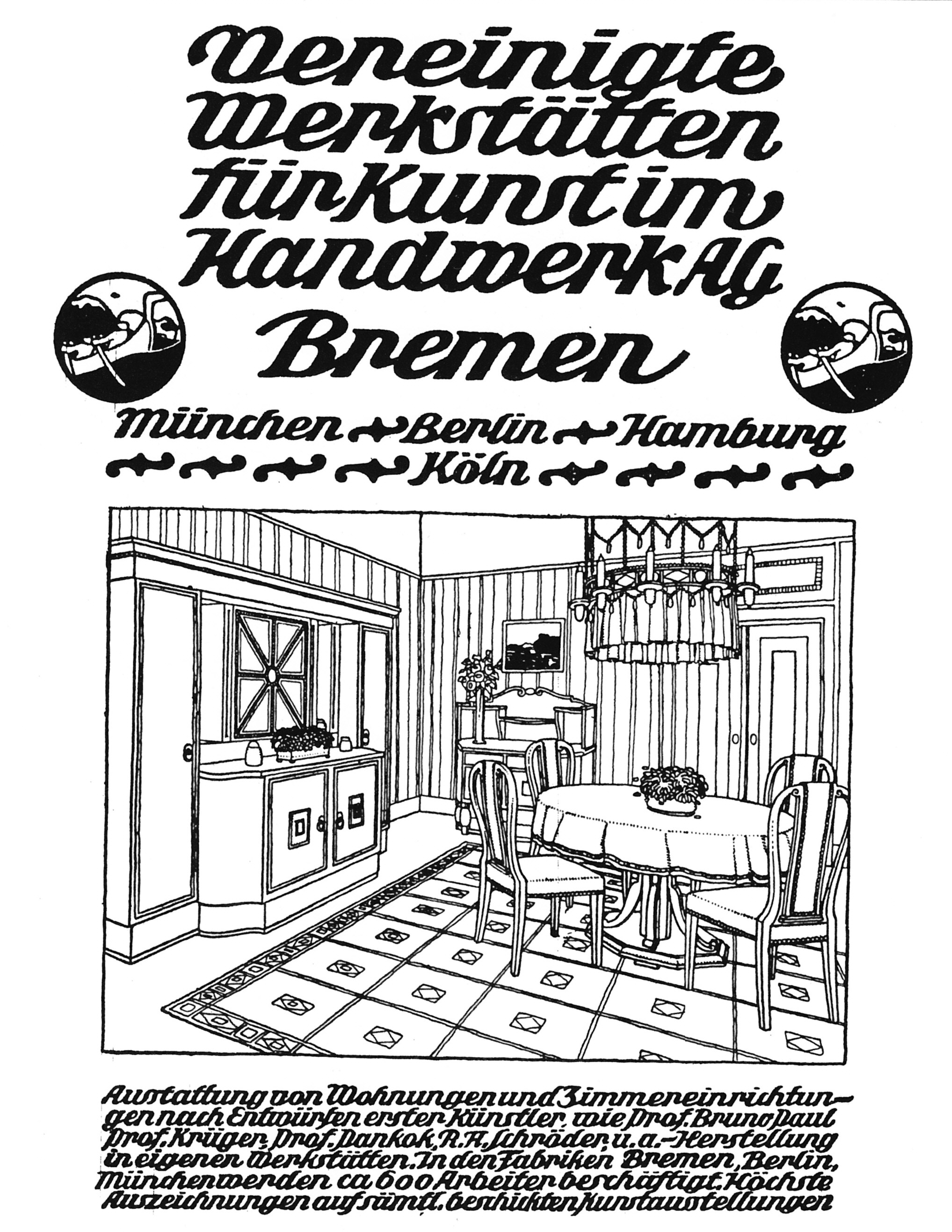 Advertisement of "Vereinigte Werkstätten", Bremen 1909